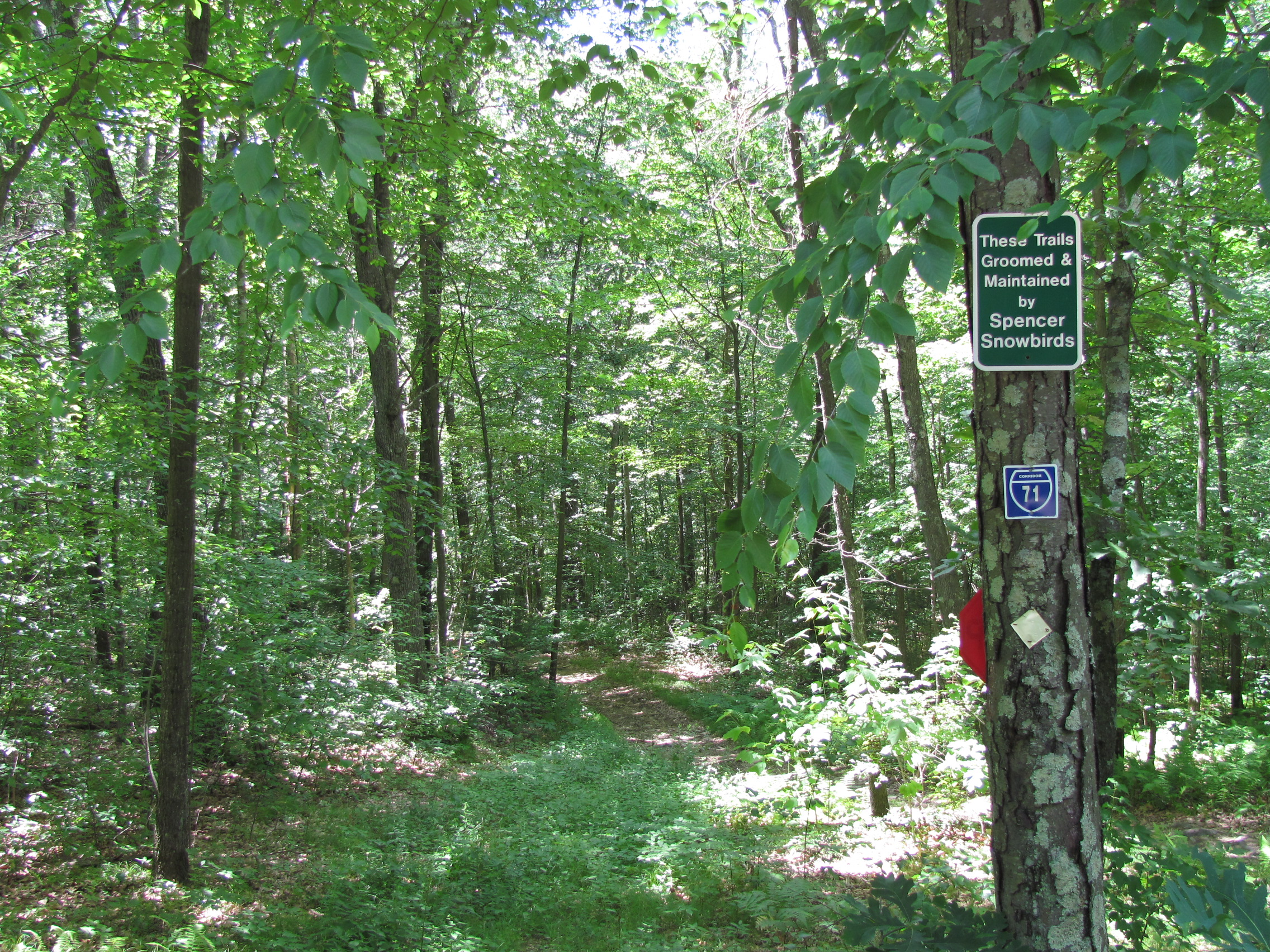 Corridor 71, Spencer State Forest, Spencer Massachusetts, July 2010